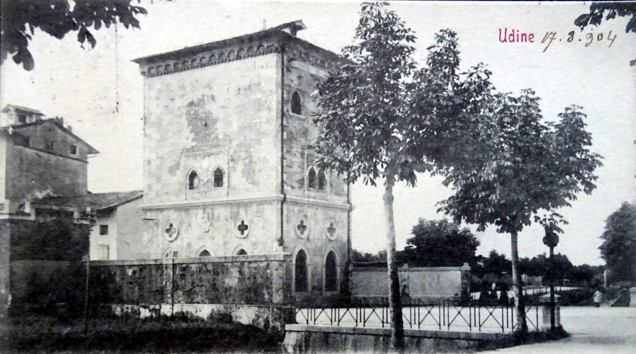 Porta San Lazzaro 1904, Udine